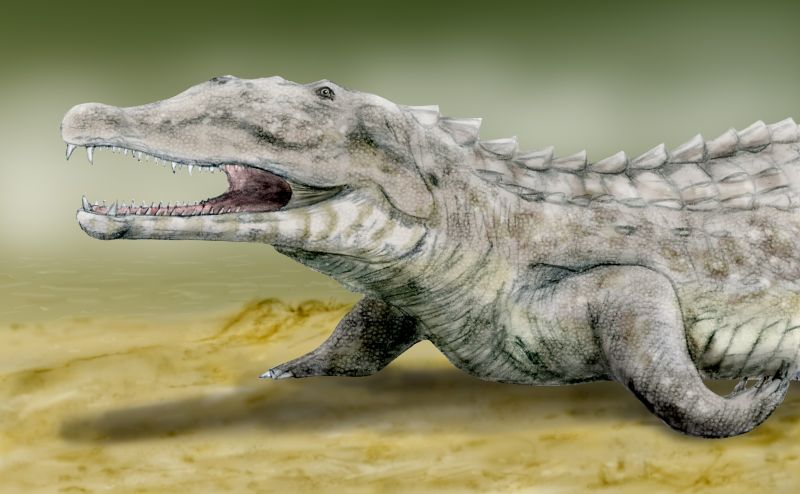 Leptosuchus (Smilosuchus) gregorii, a phytosaur from the Late Triassic of North America